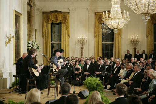 President George W. Bush, Mrs. Laura Bush and their invited guests listen to country singer Kenny Chesney perform in the East Room of the White House Tuesday evening, May 16, 2006, at the official dinner for Australian Prime Minister John Howard and Mrs. Janette Howard.